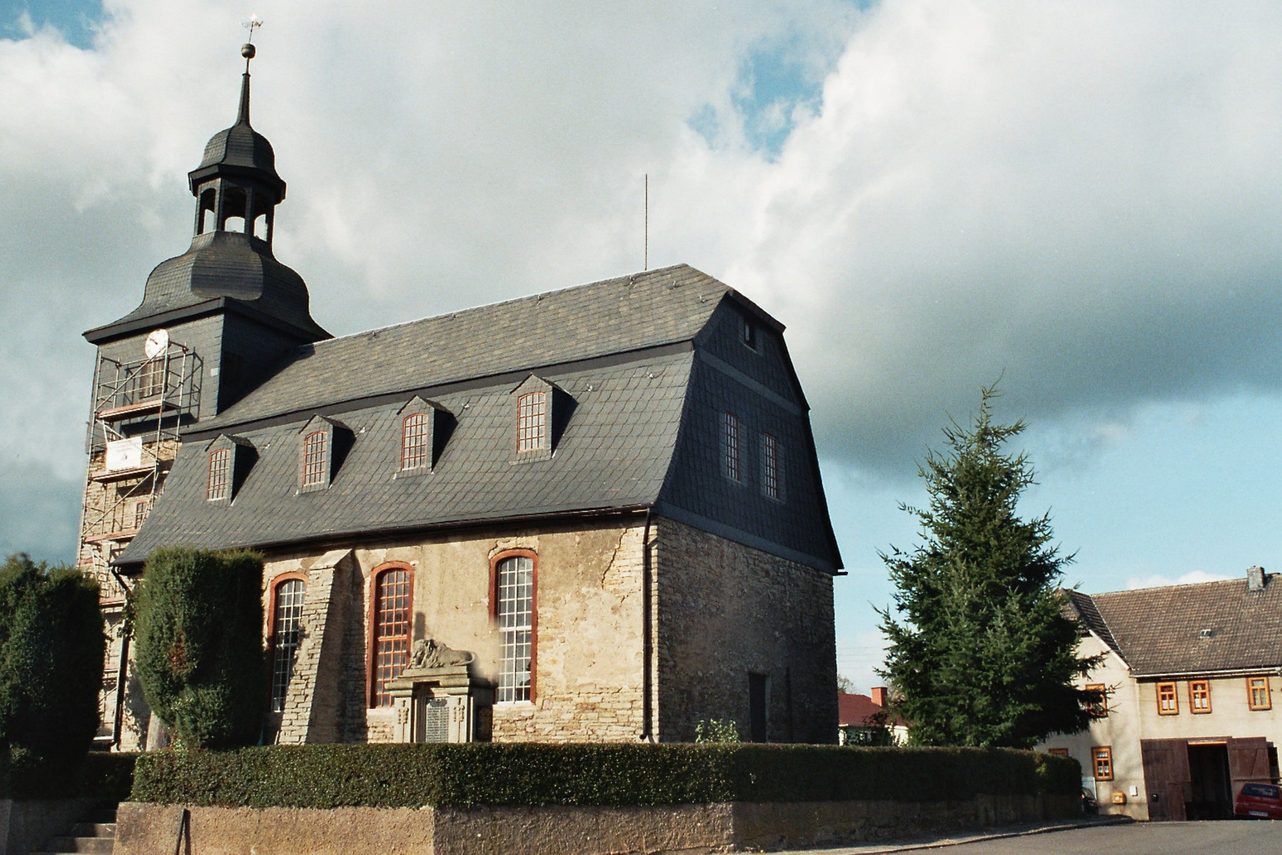 Breitenbach (Sangerhausen), the. St. Martin Church This is a photograph of an architectural monument. 84218